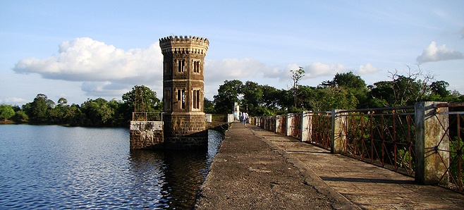 Khandari dam as water impounding structure